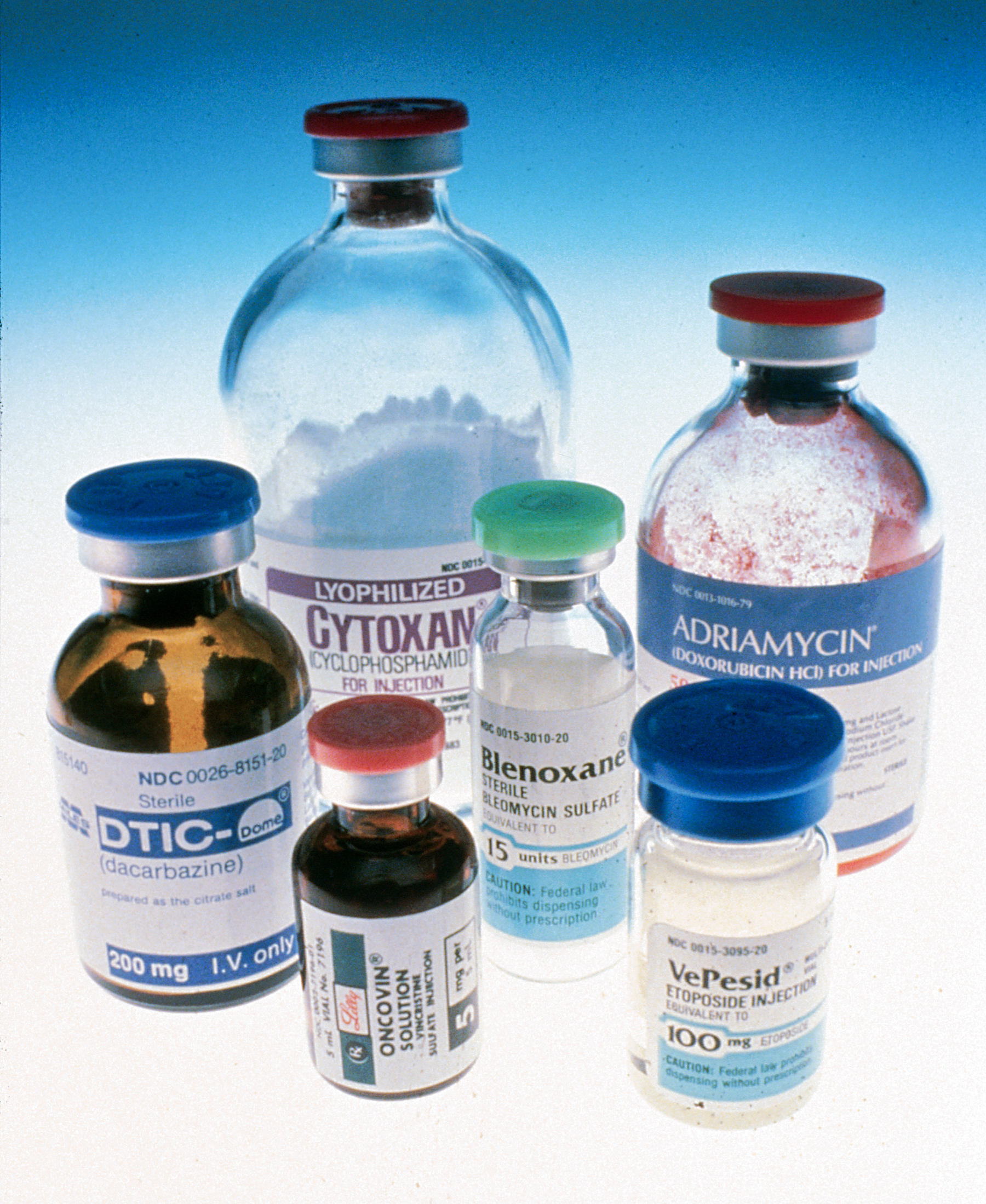 Six bottles of different types of cancer drugs over a graded blue to white background. Clockwise from center: Blenoxane (bleomycin), Oncovin (vincristine), DTIC-Dome (dacarbazine), Cytoxan (cyclophosphamide), Adriamycin (doxorubicin), and VePesid (etoposide).